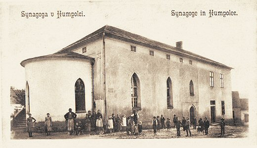 Synagogue in Humpolec, Pelhřimov District, Czech Republic in a postcard